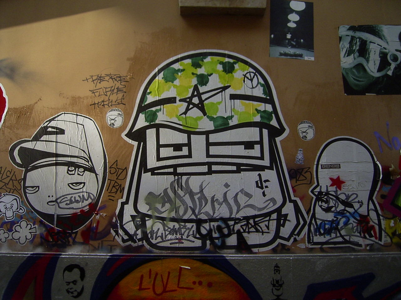 wheatpaste by D*Face, Barcelona